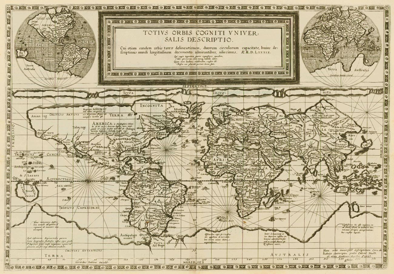 Totius Orbis Cogniti Universalis Descriptio.